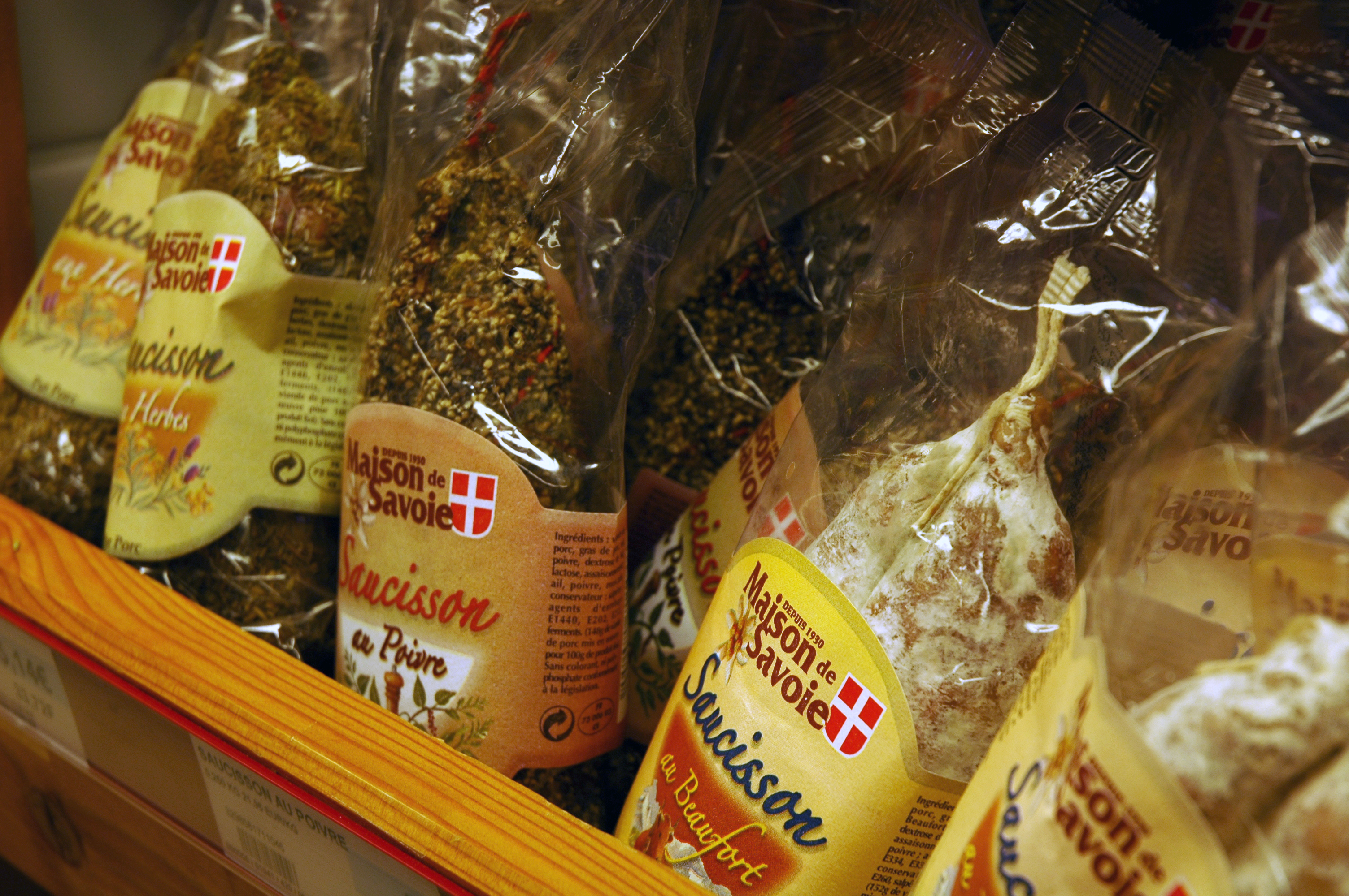 Savoie sausages in a supermarket in Méribel Mottaret.